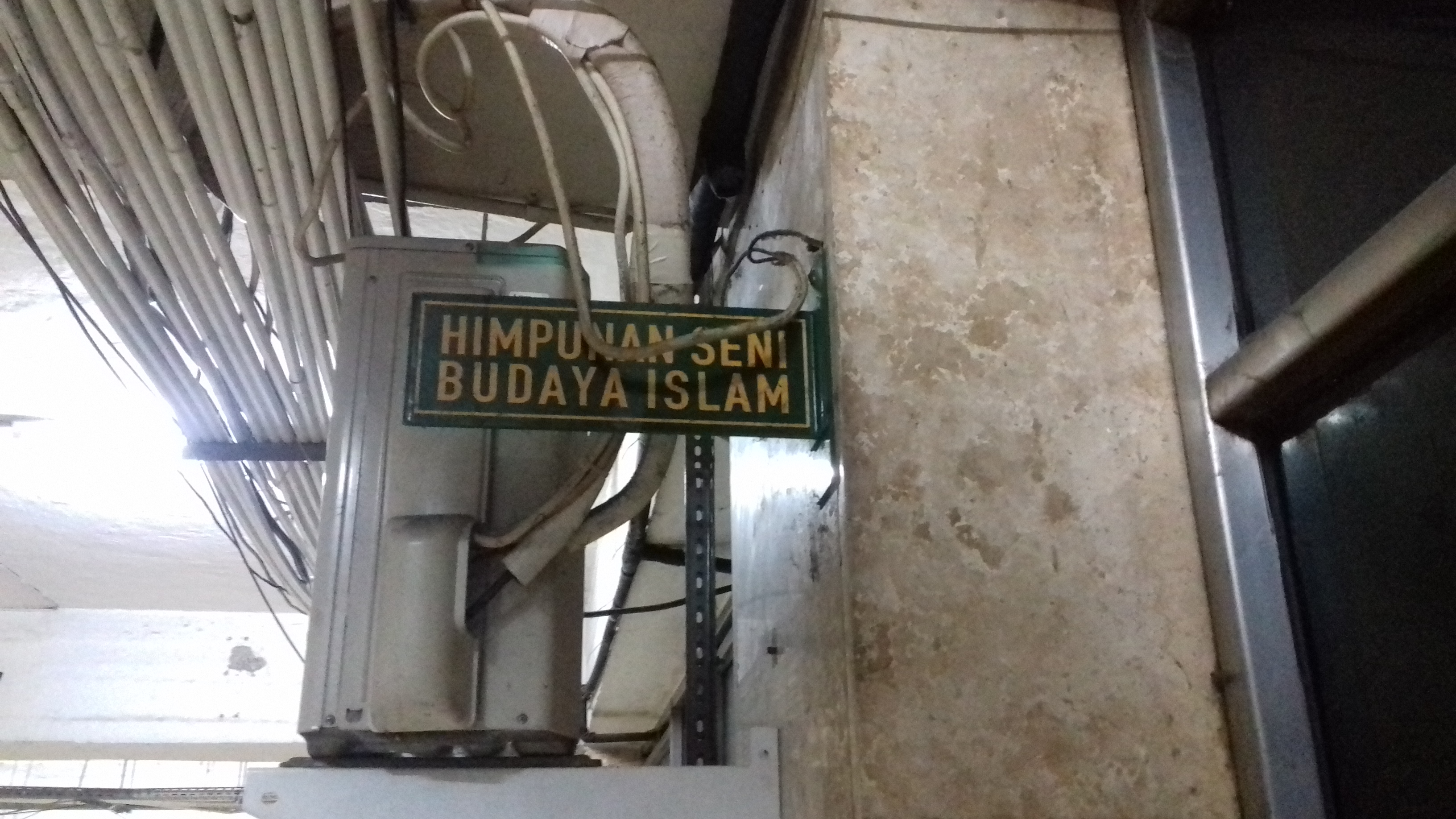 Islamic Cultural Arts Association